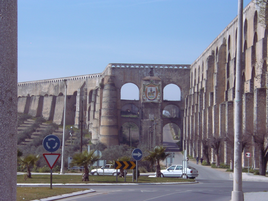 Aqueduct of Elvas, Portugal